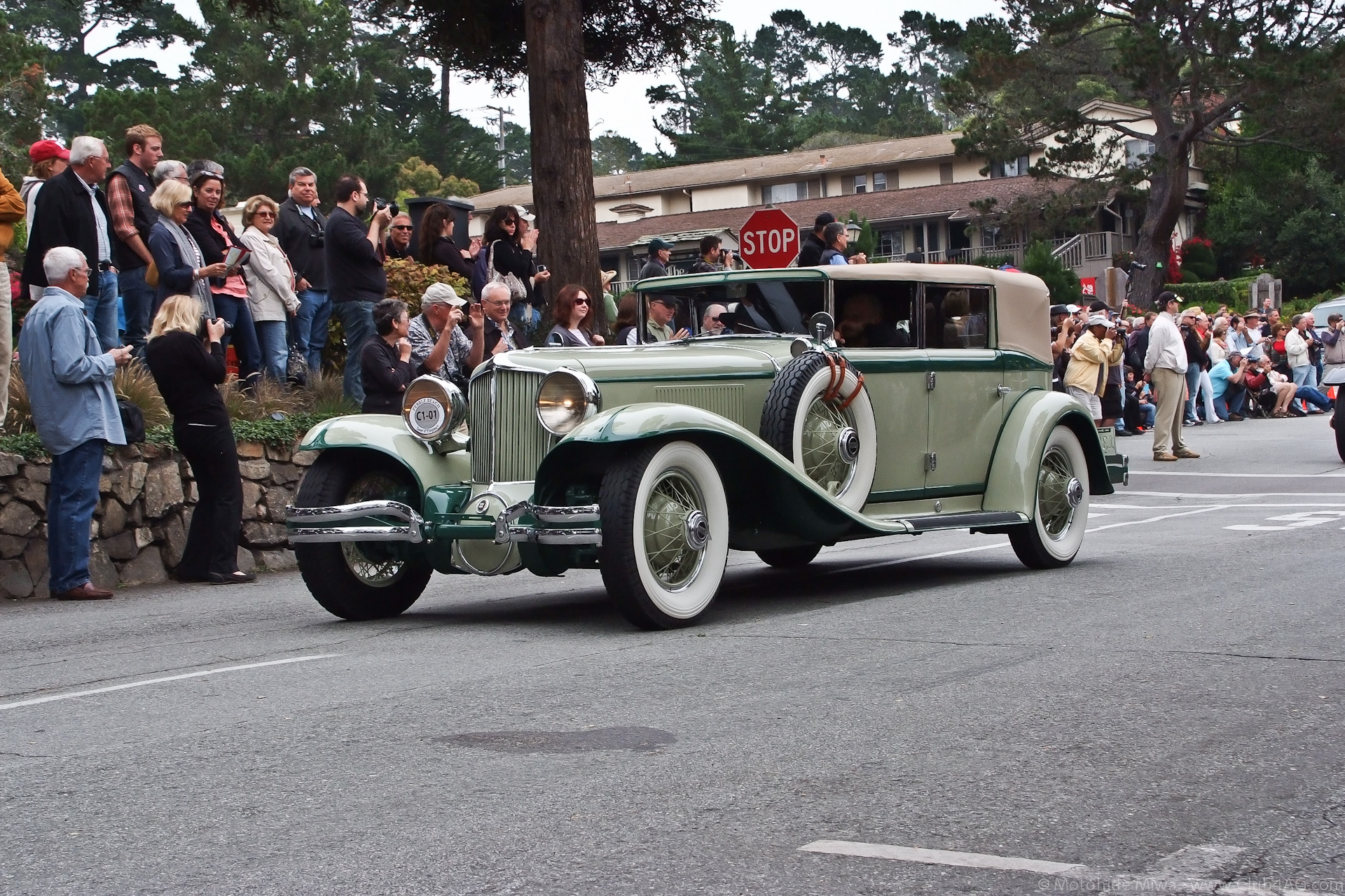 Monterey_Historics_2011-10-138